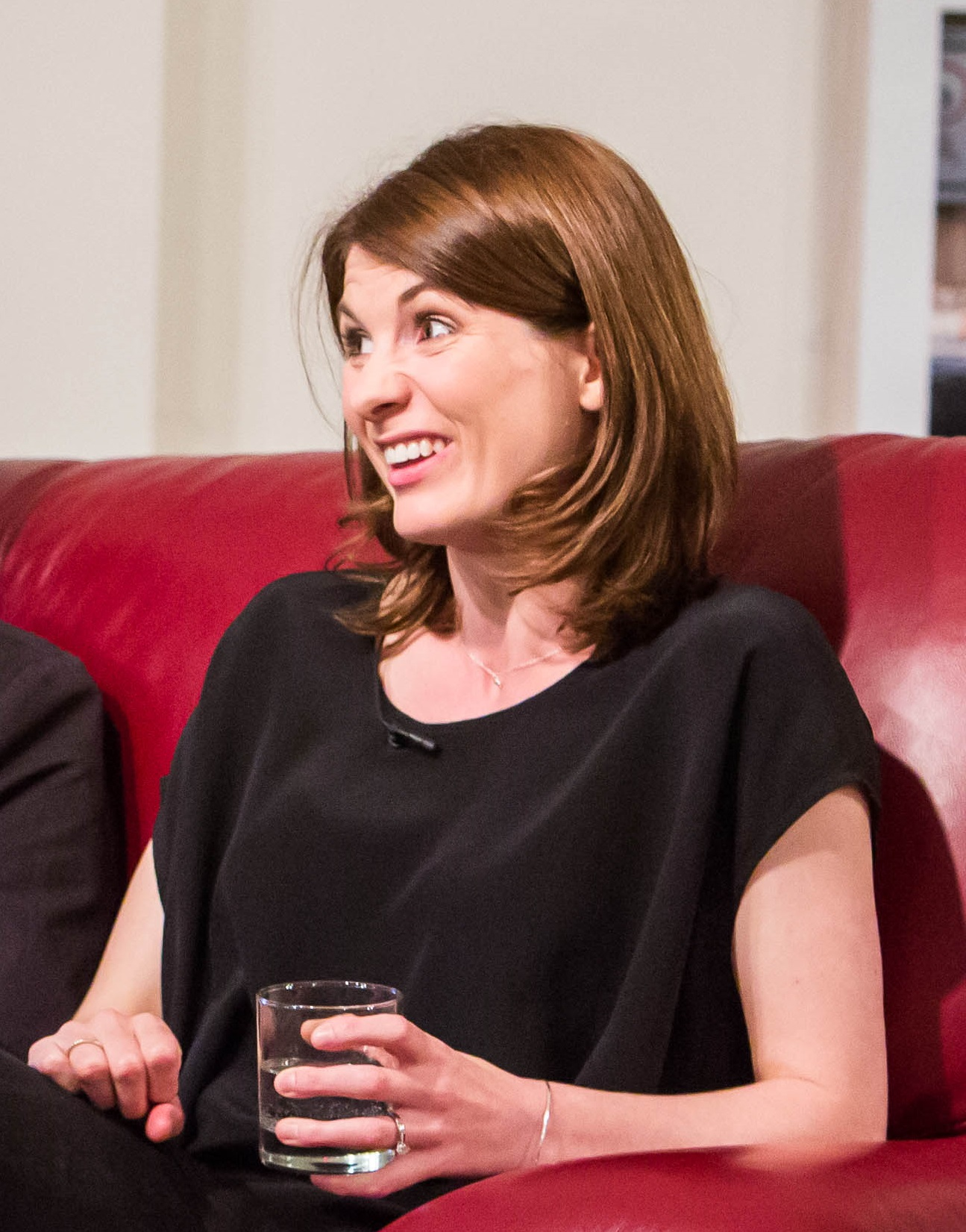 Jodie Whittaker at hospice fundraiser in September 2014 with Benson Taylor.